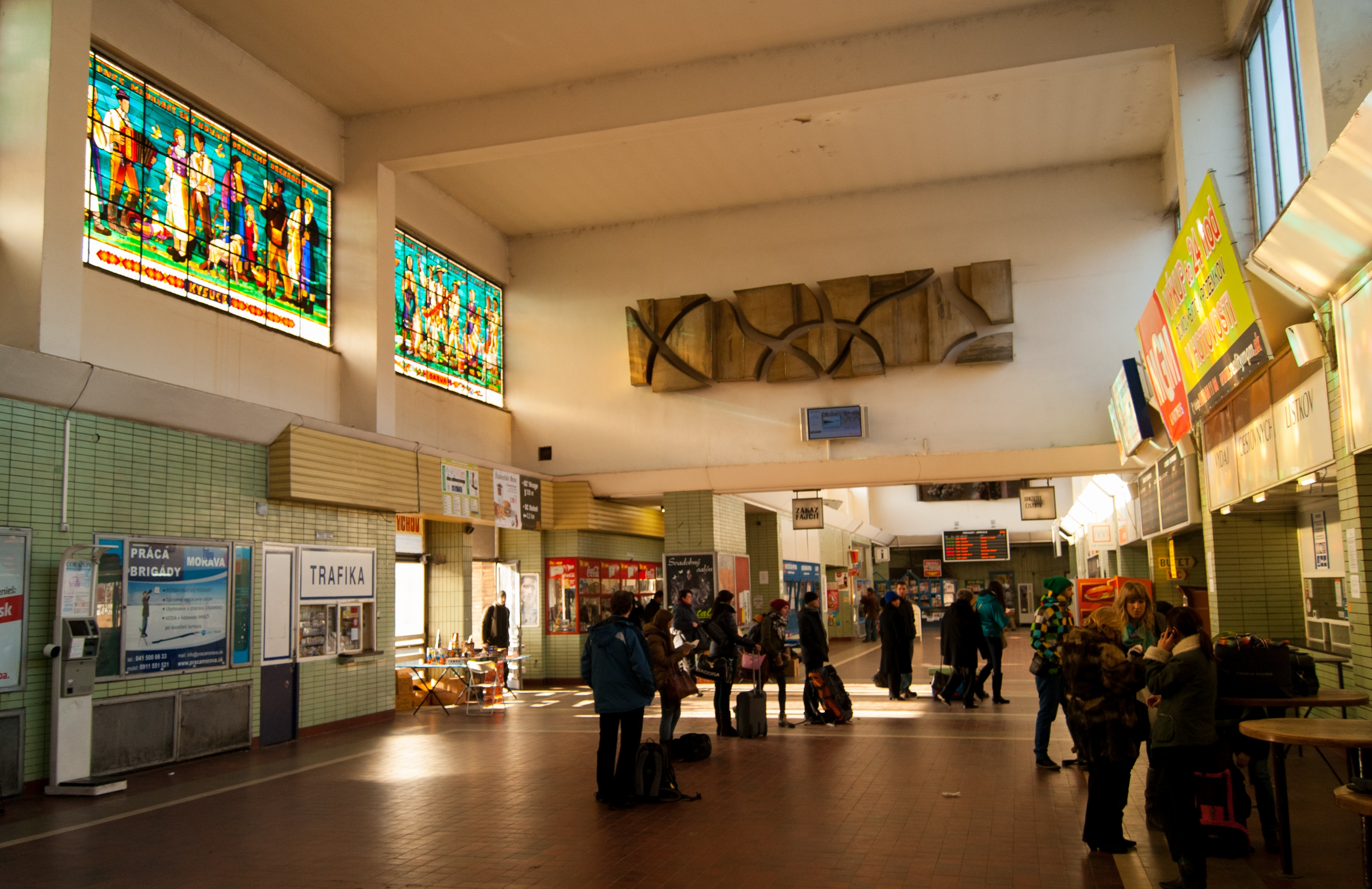 Stained glass windo in the train station of Žilina, Slovakia